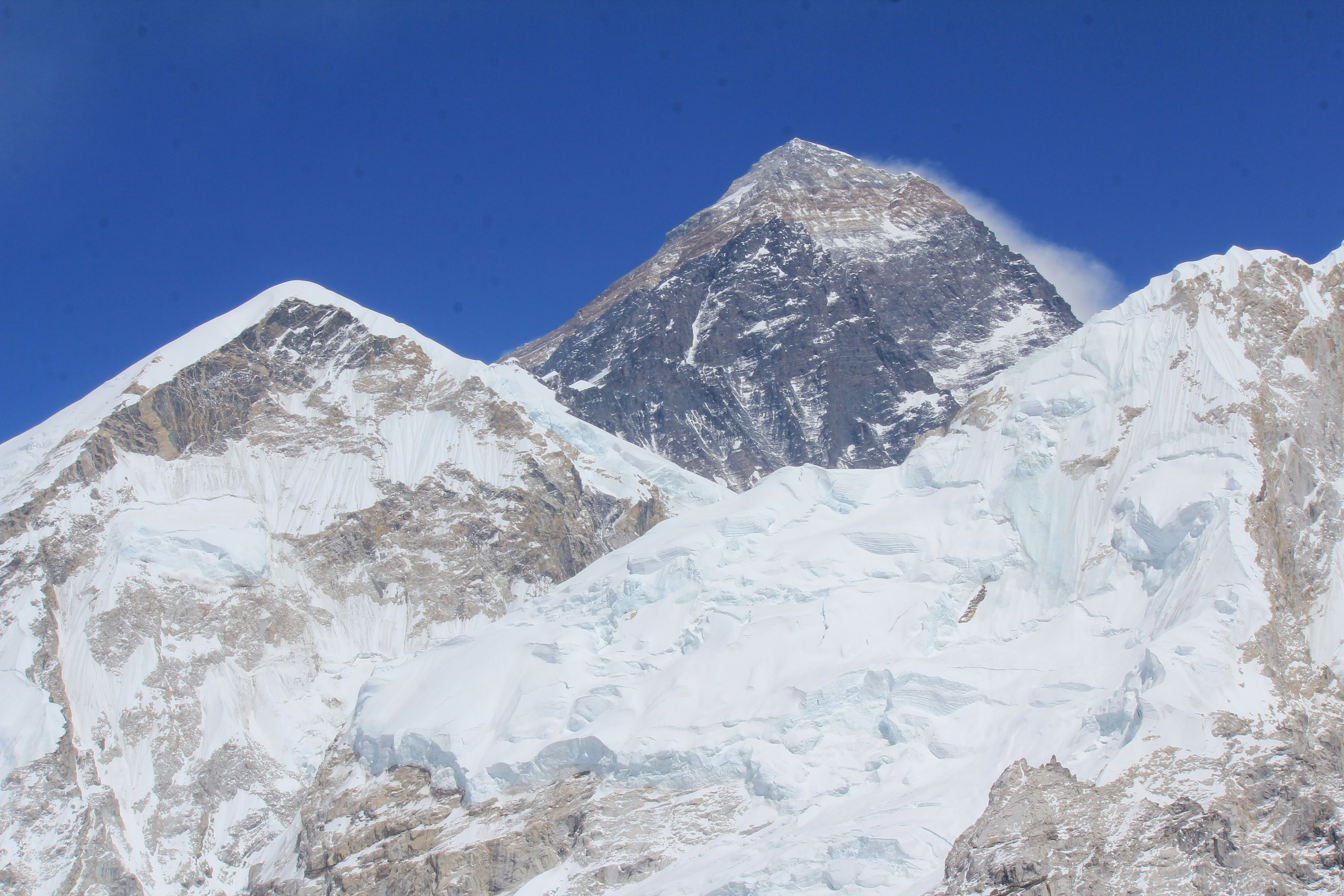 Everest from Kalatop April 2015